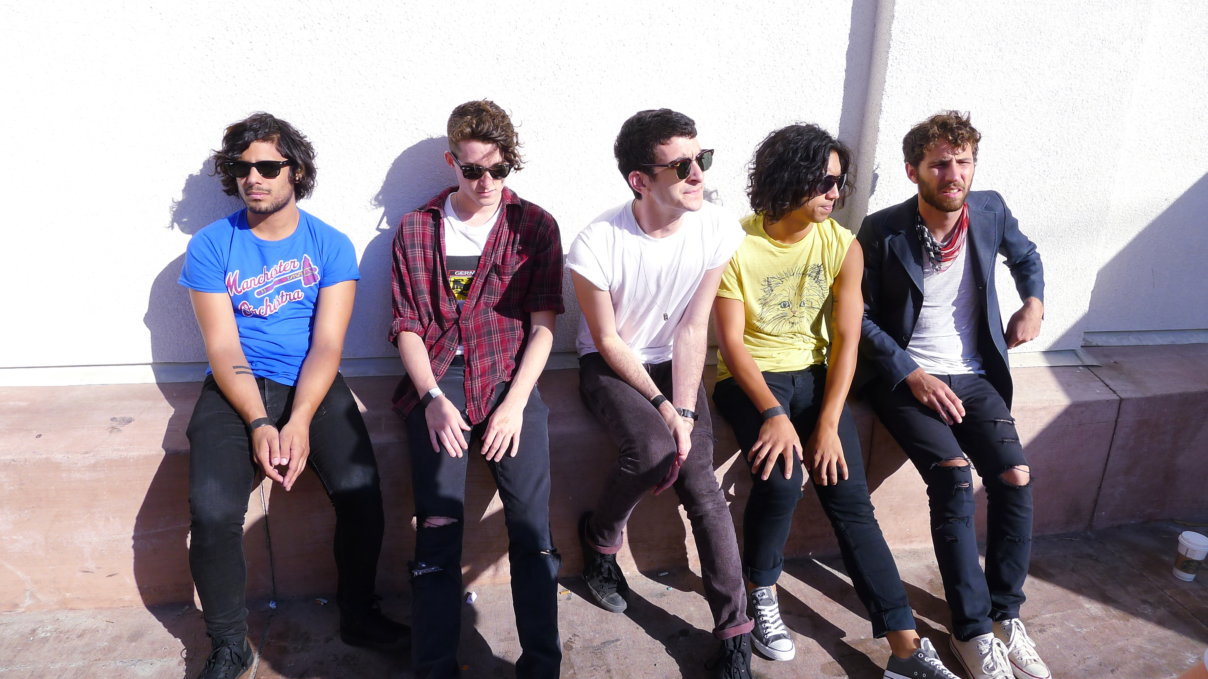 The Static Jacks before their performance at the US Open of Surfing, Aug 2011